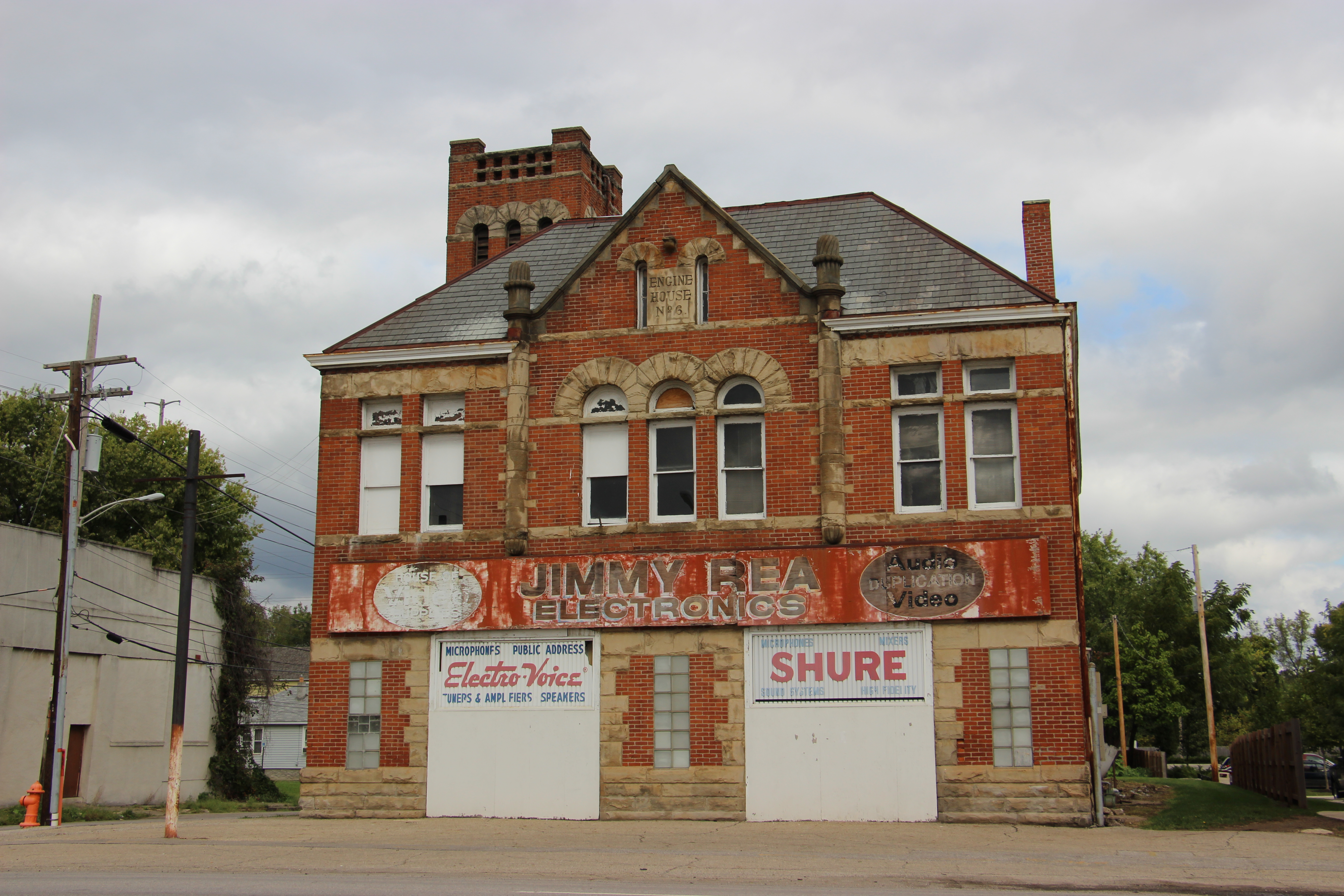 The historic Columbus Engine House No. 6 in Columbus, Ohio.